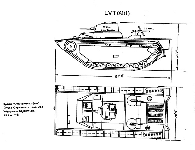 A detail drawing of the LVT(A)-1